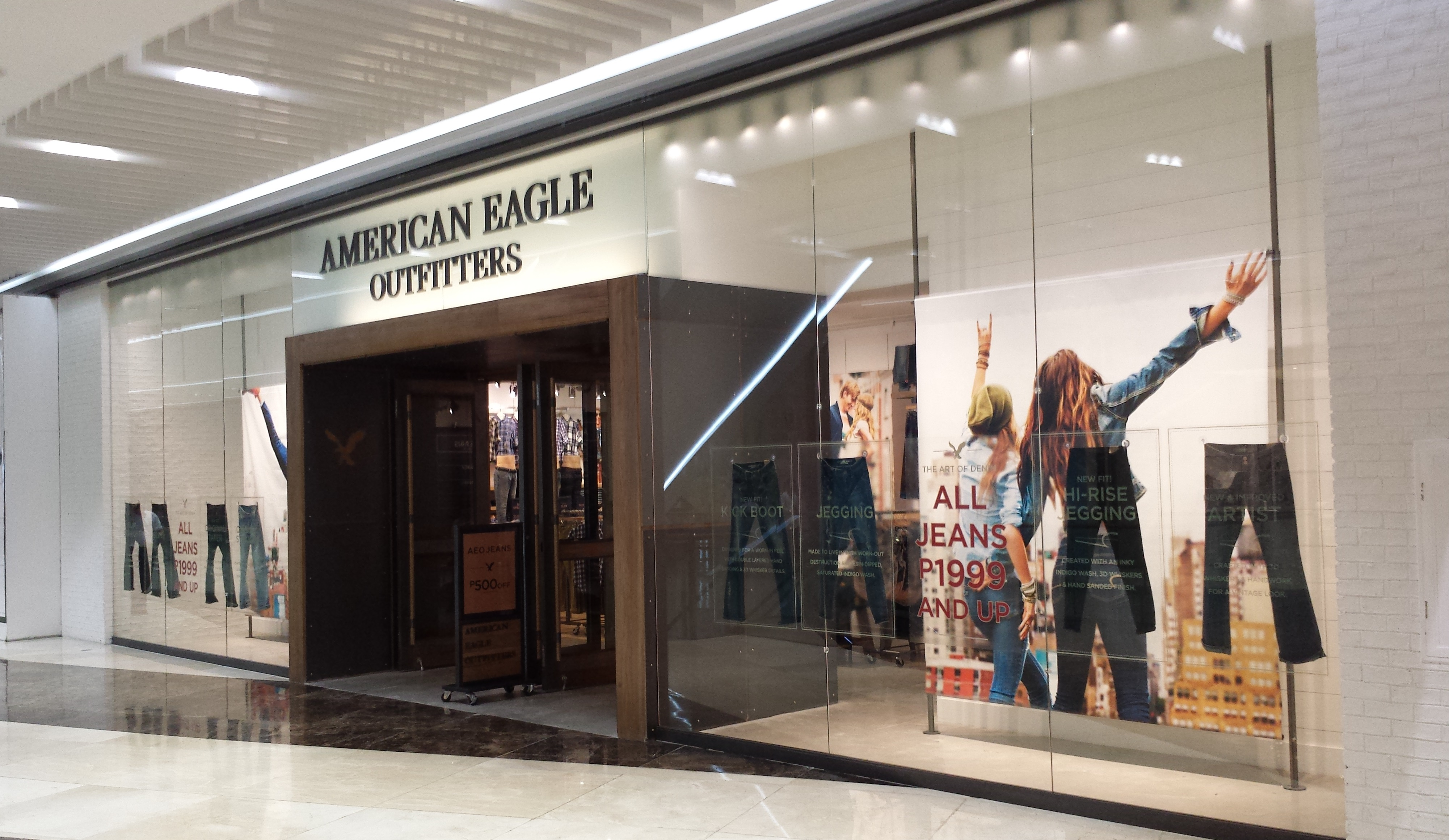 An 'American Eagle Outfitters' store in the mall 'SM Aura Premier' in Bonifacio Global City, Metro Manila, Philippines.